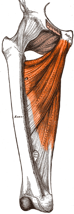 Adductores femoris, colorized